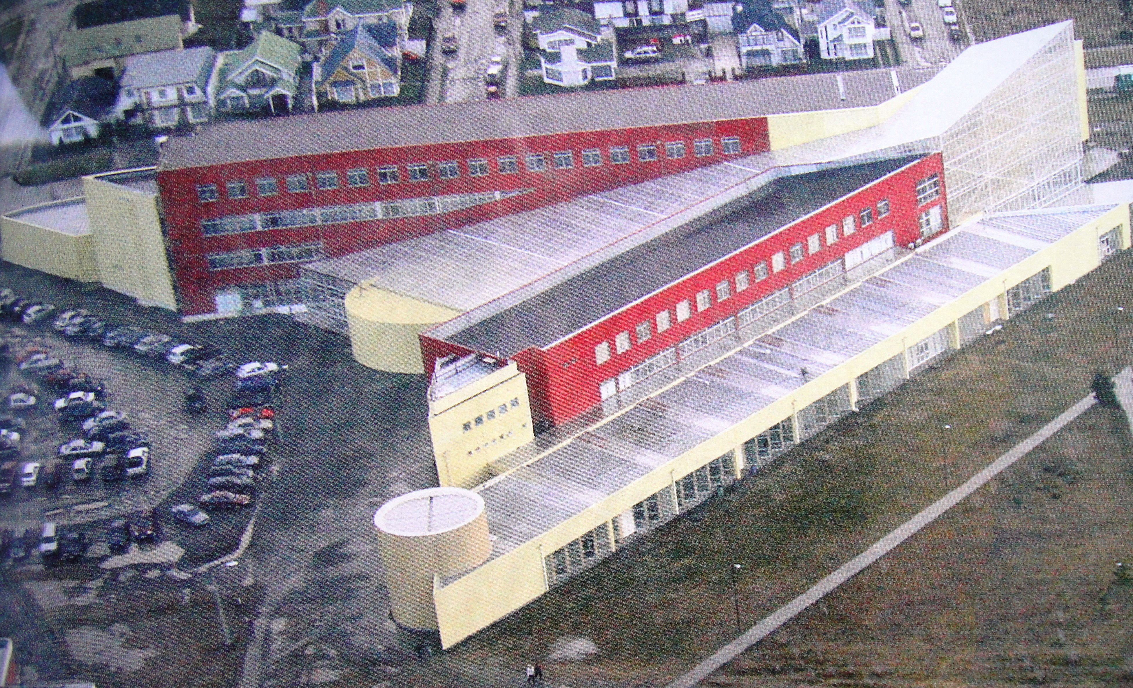 Aerial photo of The Faculty of Engineering, University of Magallanes